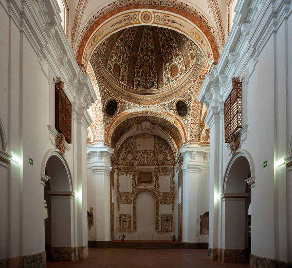 Iglesia de San Agustín; Almagro, Castilla-La Mancha, Ciudad Real, Spain; ; ref: PM_090776_E_Almagro; ; Photographer: Paul M.R. Maeyaert; © Paul M.R. Maeyaert; ; Cultural heritage; Cultural heritage/Baroque; Cultural heritage/Mural painting fresco; Europeana; Europe/Spain/Almagro